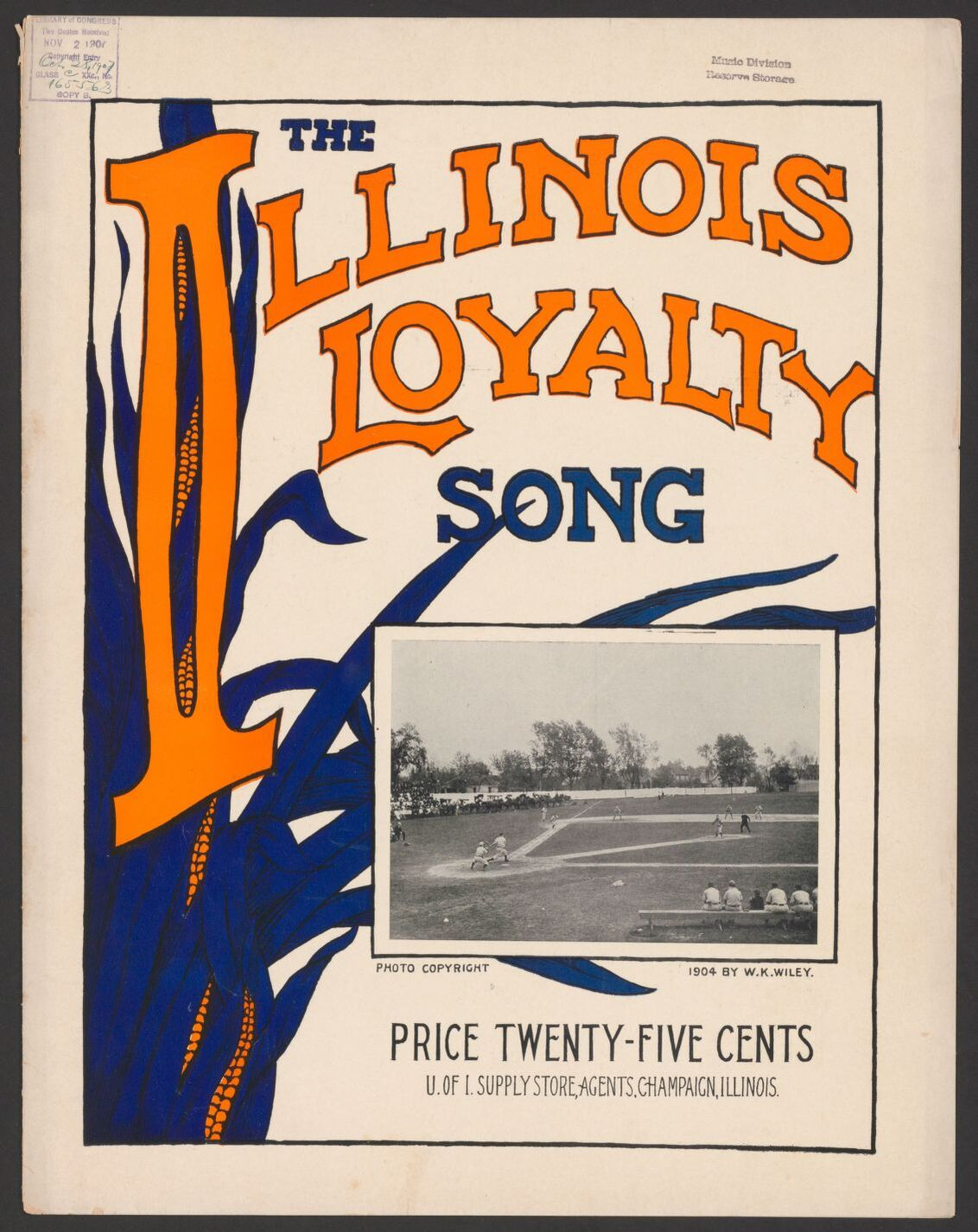 The title page of the original publication of "The Illinois Loyalty Song." Digital copy created by The Library of Congress.